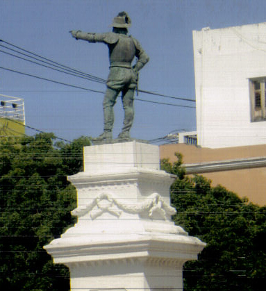 Image is of the Statue of Juan Ponce de Leon, located in the San Jose Plaza in San Juan, Puerto Rico. The statue, which was made prior to 1900, therefore copyright laws do not apply 1. The Statue was created in New York in 1882 and the designer of the same is unknown. 2. The Statue was made from the canons which the Puerto Rican Militia captured after defeating Sir Ralph Abercromby in his atempt to invade the island in 1797.